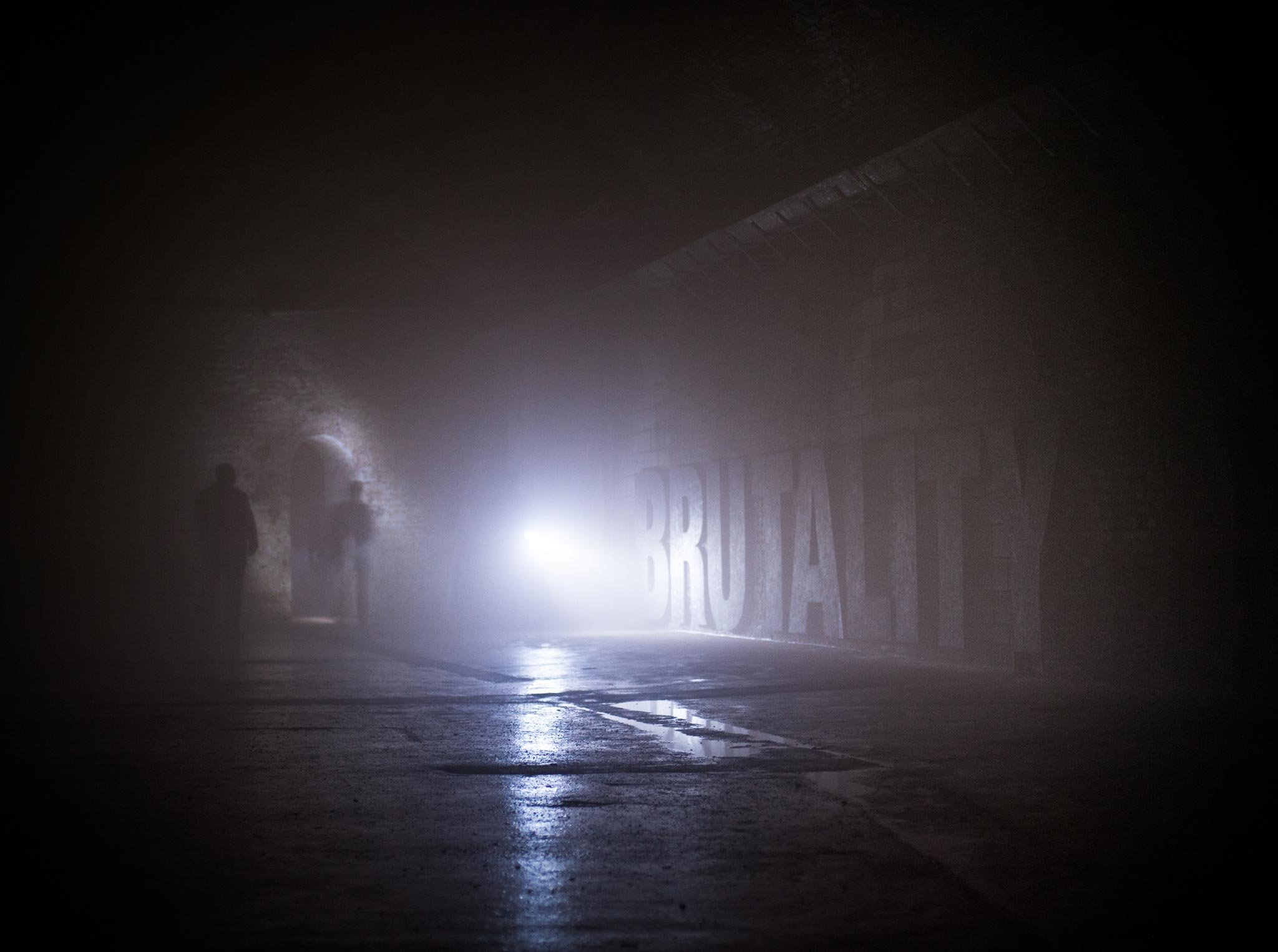 One of Five rooms in the Vaults under Waterloo Station, London, created by public artist Martin Firrell for 20th Century Fox on the UK release of Dawn of the Planet of the Apes. Installed text displays the sentence BRUTALITY BEGETS BRUTALITY.